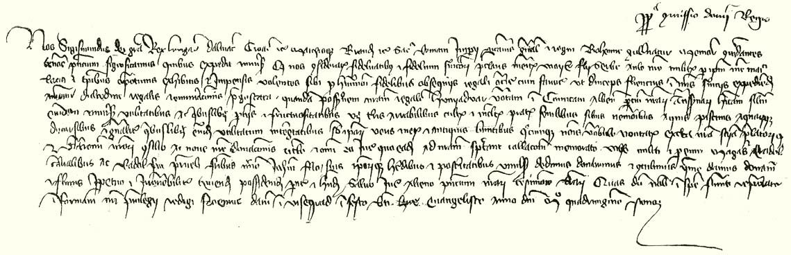 Sigismund of Luxembourg's Diploma (1409)